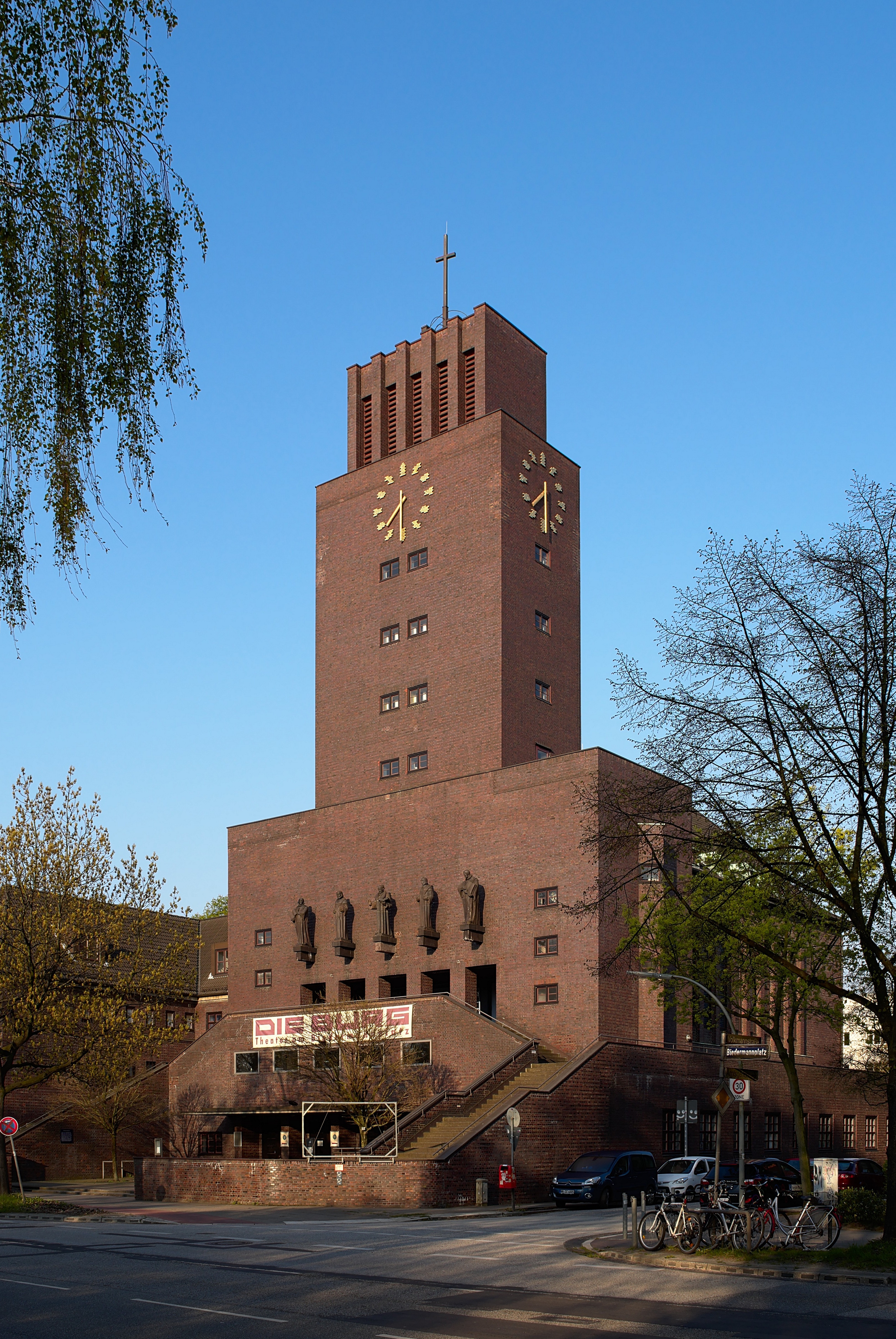 Bugenhagenkirche in Barmbek-Süd, Hamburg, Germany. This church was completed in 1929 and named after Johannes Bugenhagen, the Protestant reformer and disciple of Martin Luther, who came to Hamburg almost exactly 400 years before.